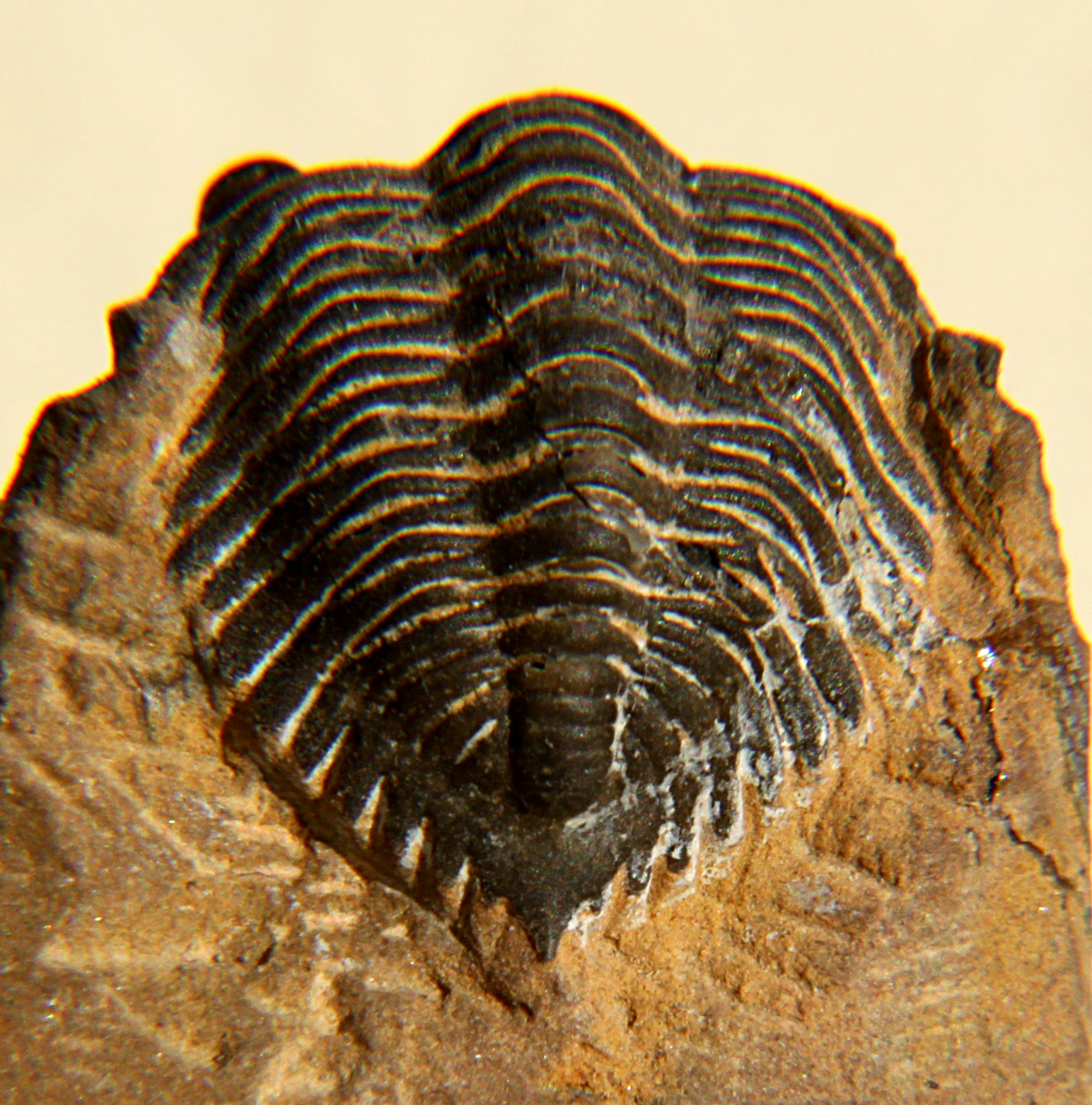 A Minicryphaeus minimus, 25mm long, caudal view of the pygidium, order Phacopida, family Acastidae, collected in Morocco, from the Devonian